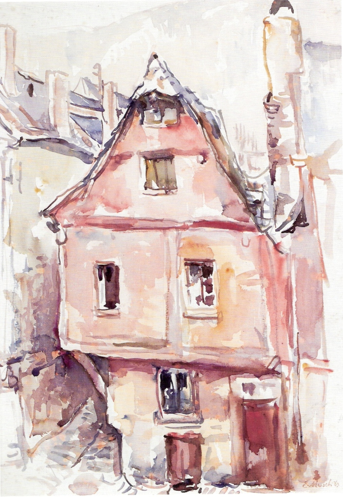 This is a watercolor painted by Evert Musch (who was my father) in 1963, in Zell (Mosel), Germany. The size is 52 x 37 cm. The original is in a private collection. The copyrights are owned by the heirs of Evert Musch.